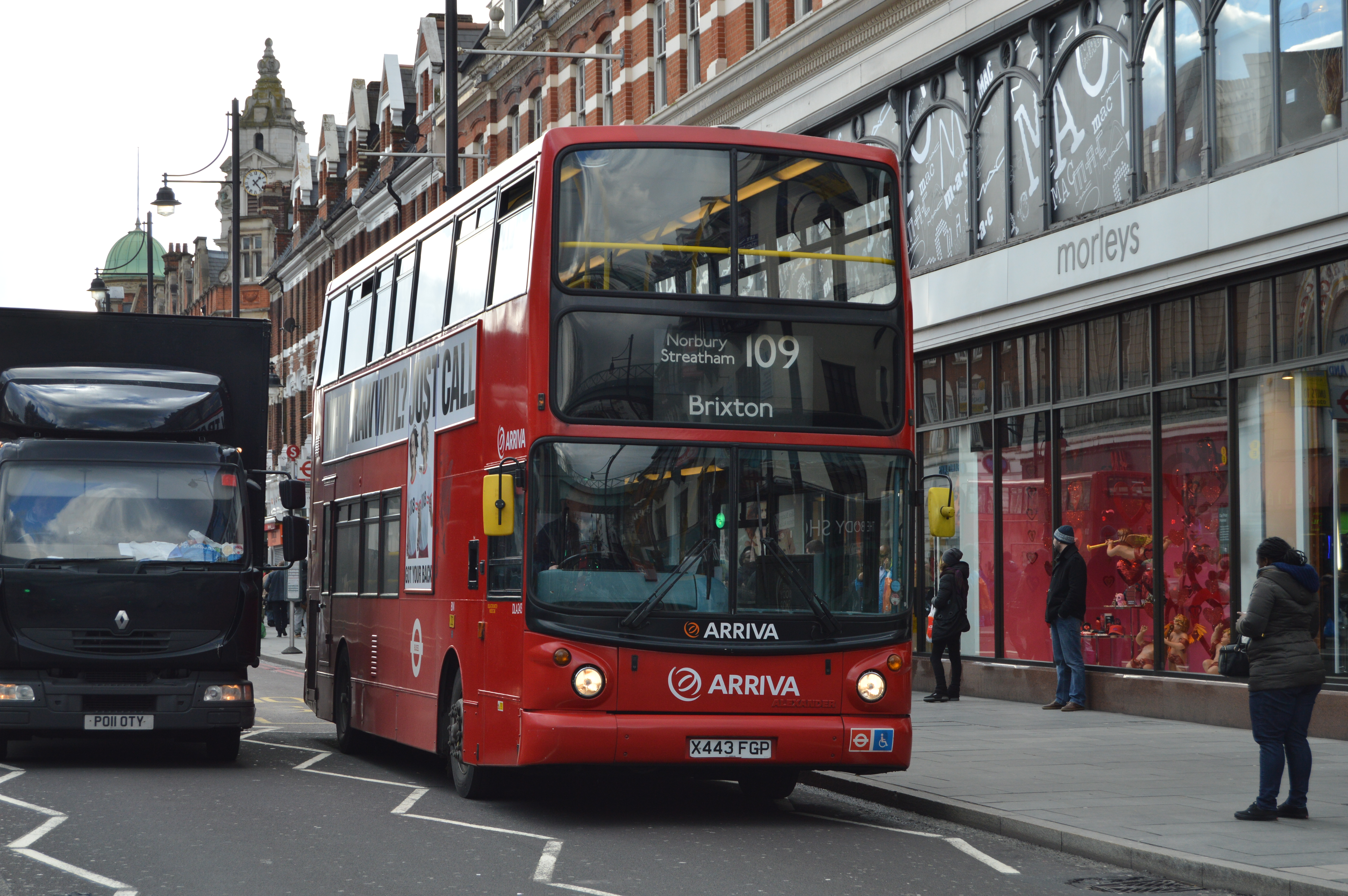 Arriva DLA243, DAF DB250 on London Buses route 109